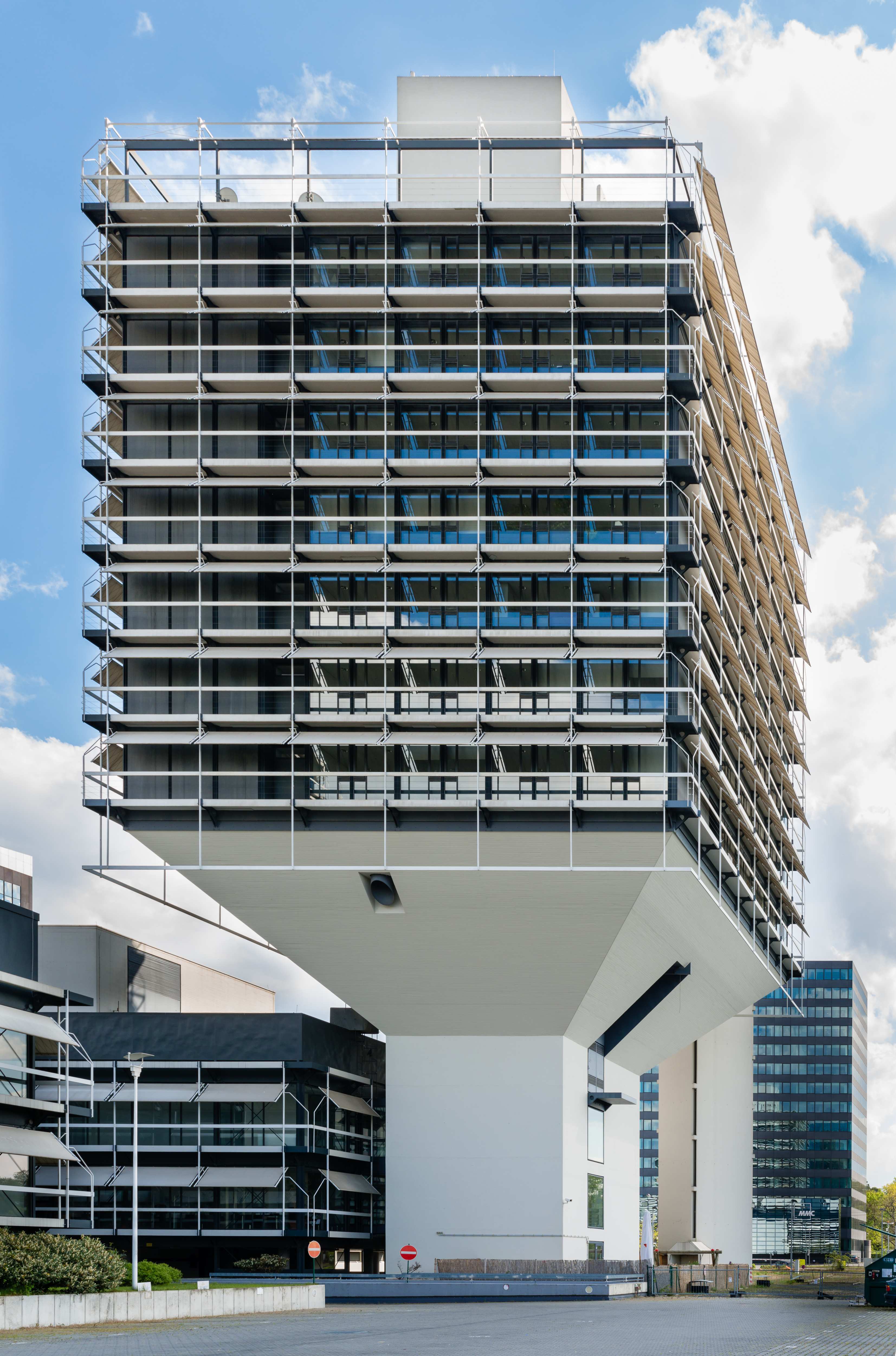 Frankfurt am Main, Lyoner Straße 34, Olivetti Tower I (South). Office building complex from 1972, as seen from South-West.